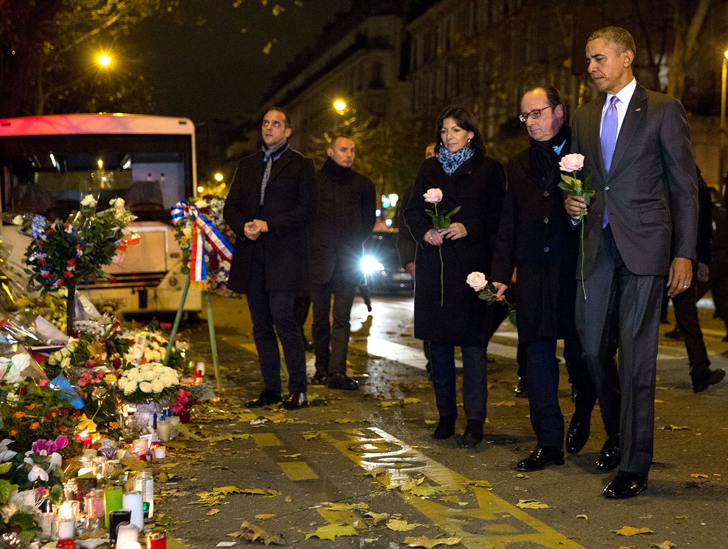 Nov. 30, 2015 "After arriving in France to attend the Climate Change Summit, the President, with French President François Hollande and Paris Mayor Anne Hidalgo, made an unannounced stop just after midnight at the memorial in front of le Batacian, the site of a Paris terrorist attack." (Official White House Photo by Pete Souza)